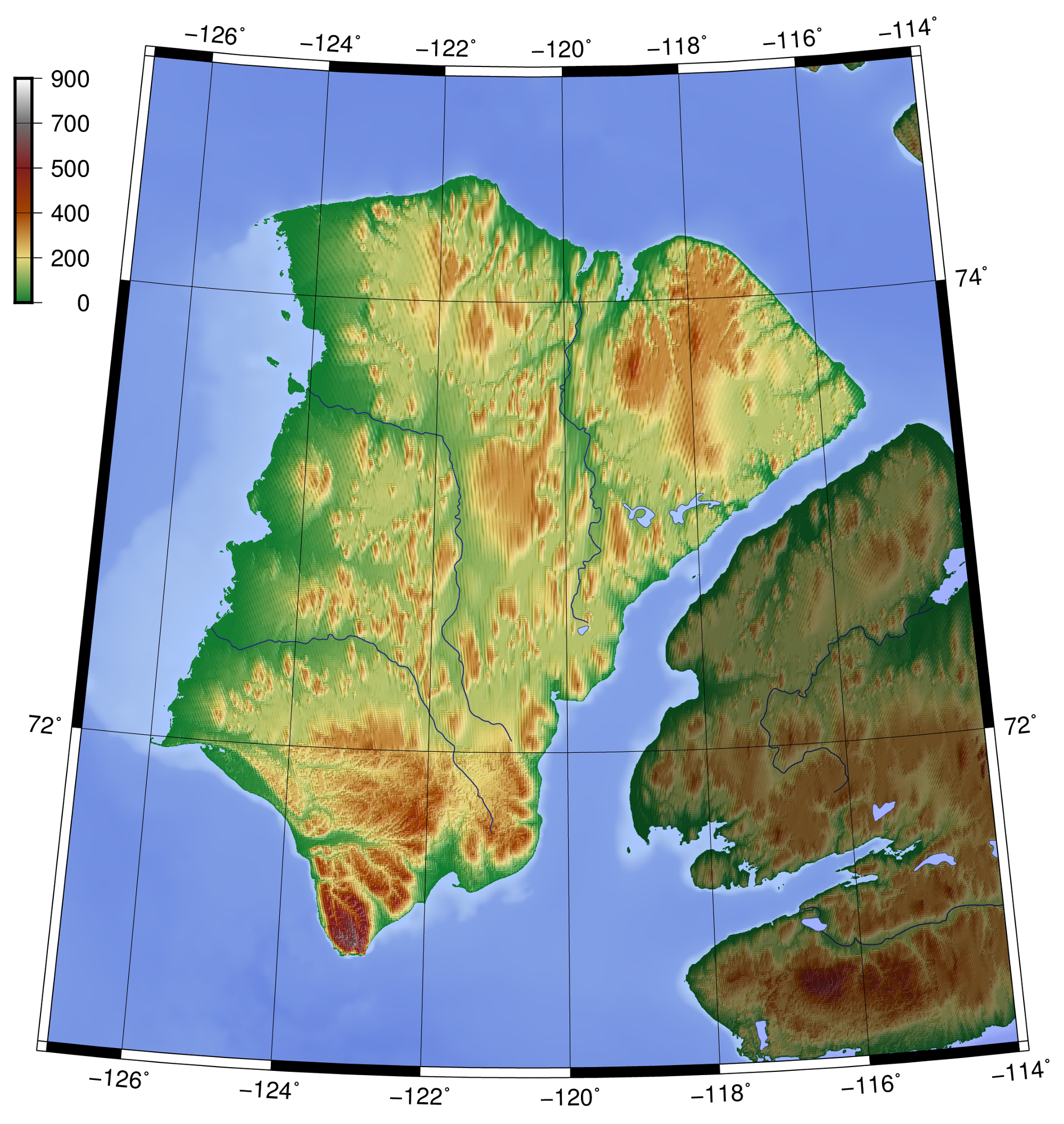 Topography of Banks Island, created with GMT 5.2.1